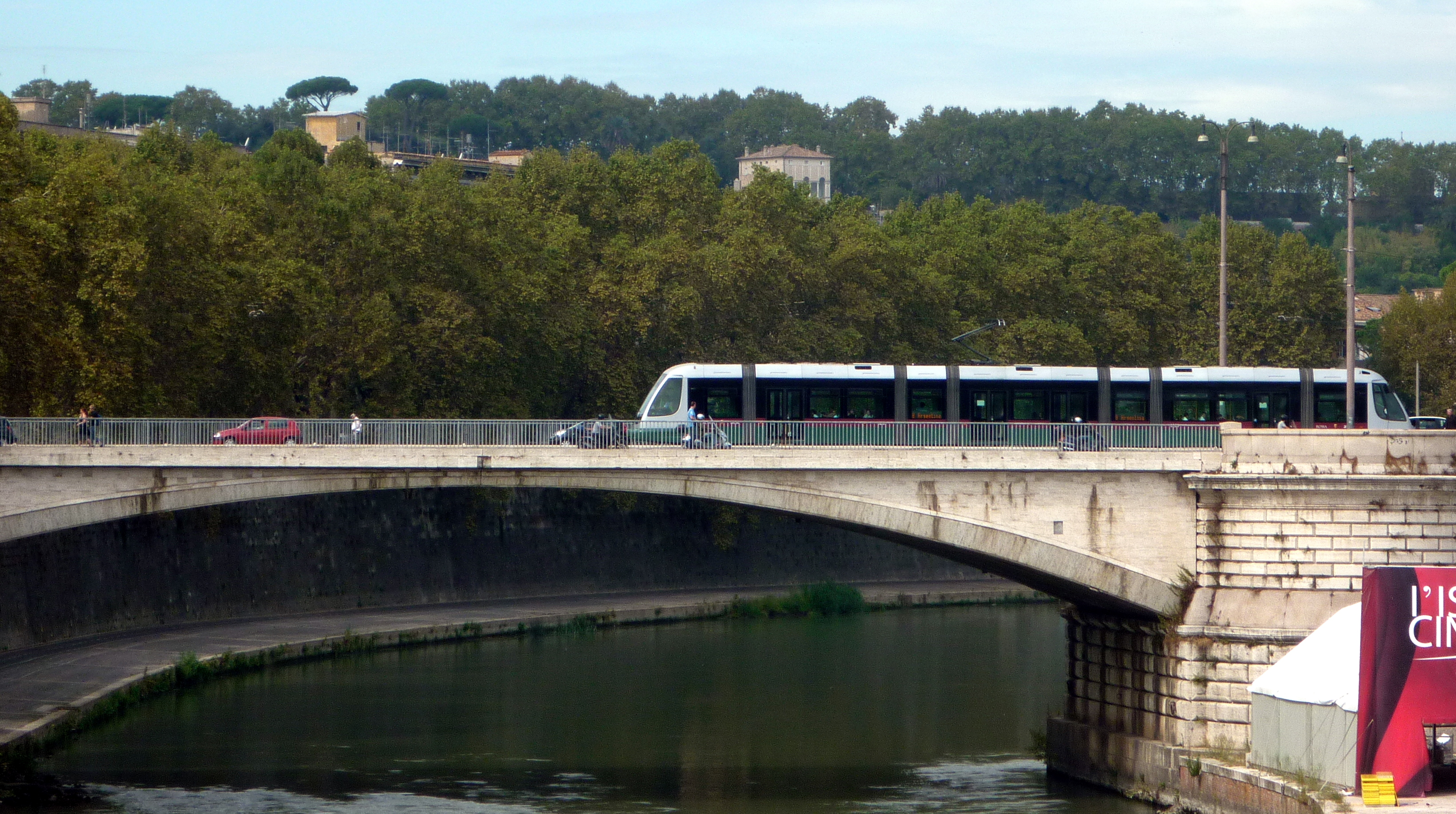 ATAC 9200 series in Rome on Ponte Garibaldi